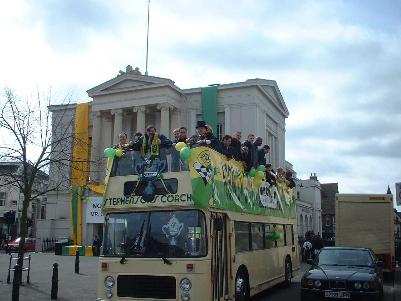 Photo taken by MLS11 during the making of 'Mike Bassett: England Manager'